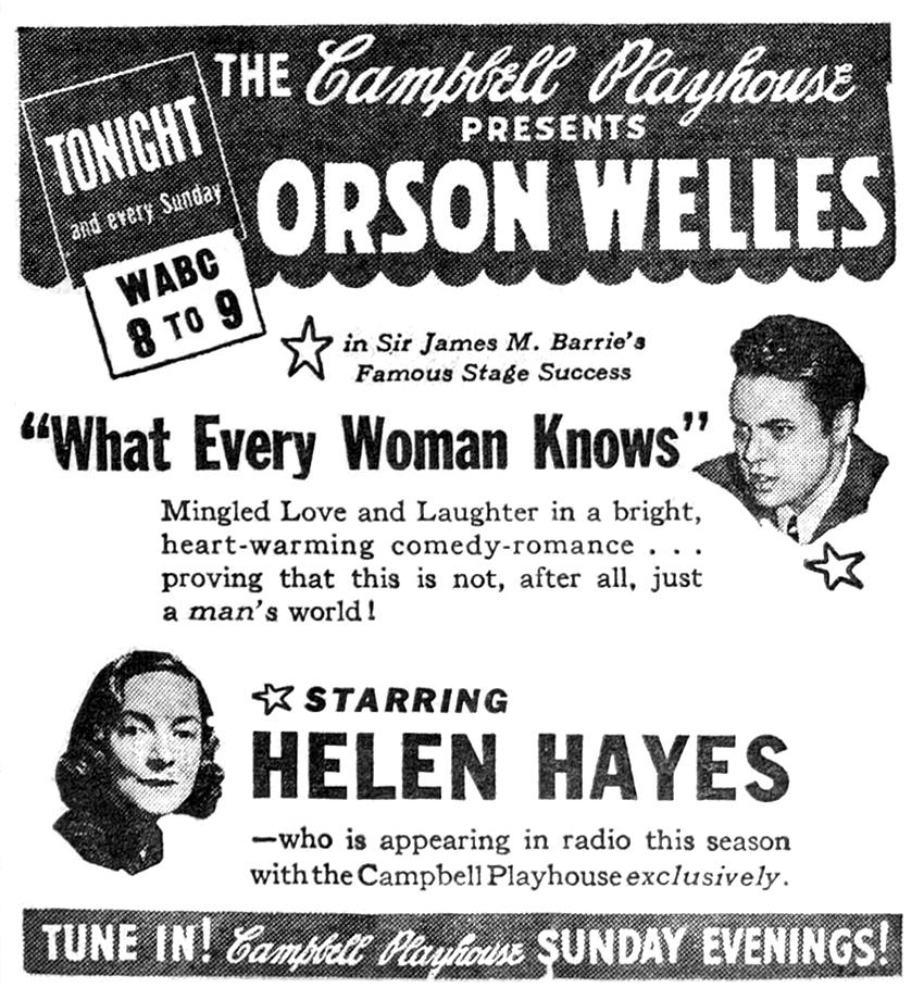 Newspaper advertisement for The Campbell Playhouse presentation of "What Every Woman Knows" starring Helen Hayes and Orson Welles